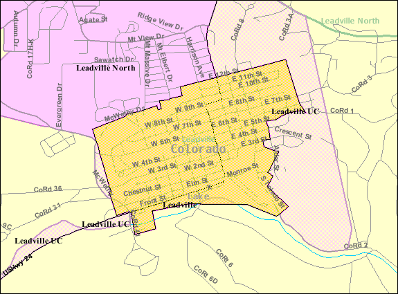 Leadville, Colorado